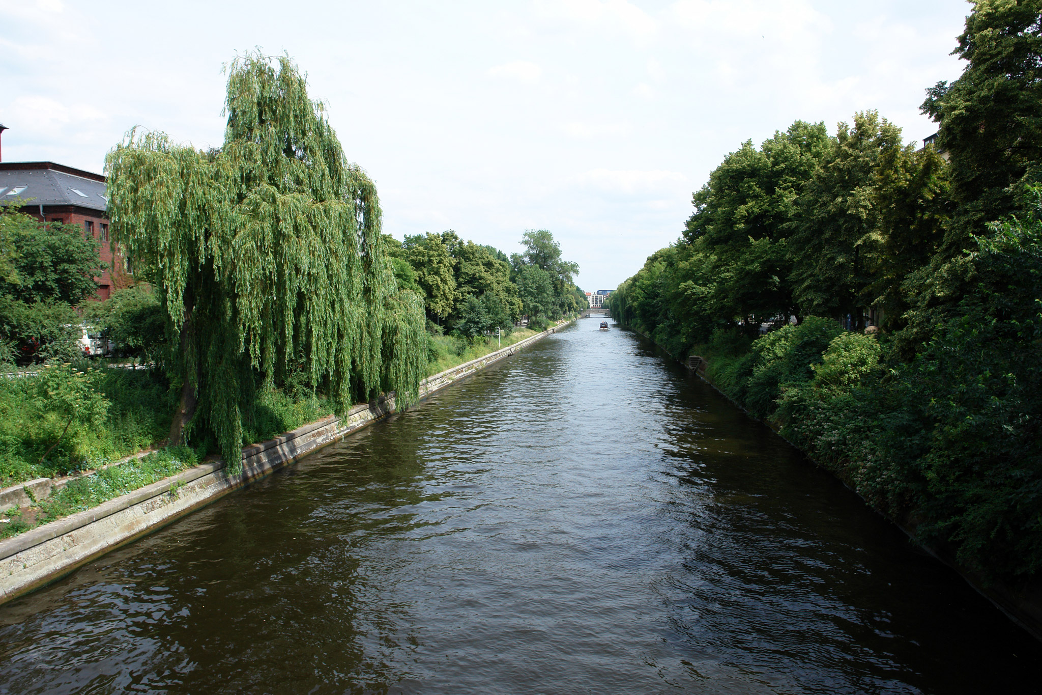 Berlin, Landwehrkanal, east of the Ohlauer Brücke.